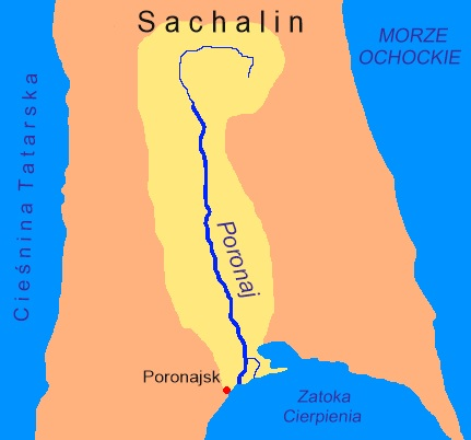 Poronai, the largest river of Sakhalin Island (350 km). Translated from Russian to Polish